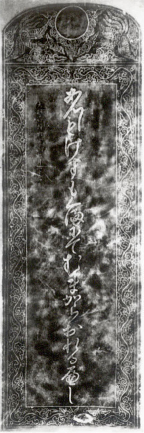 Stele with instructions to dismount from one's horse, Sogenji, Naha, Okinawa, Japan